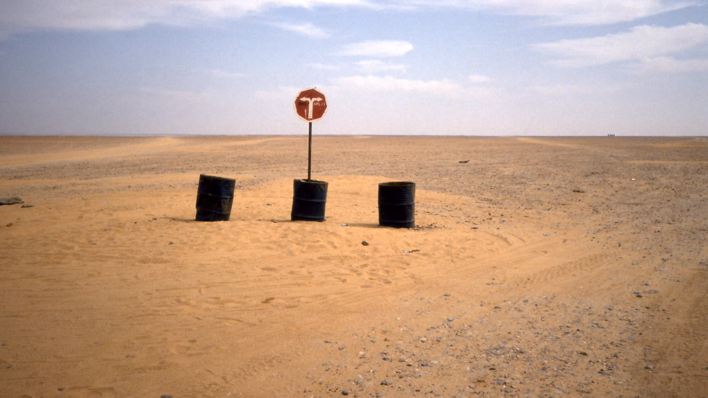 Road sign of the Trans Sahara Highway (Hoggar desert track) in Niger. Turn right for "Arlit"